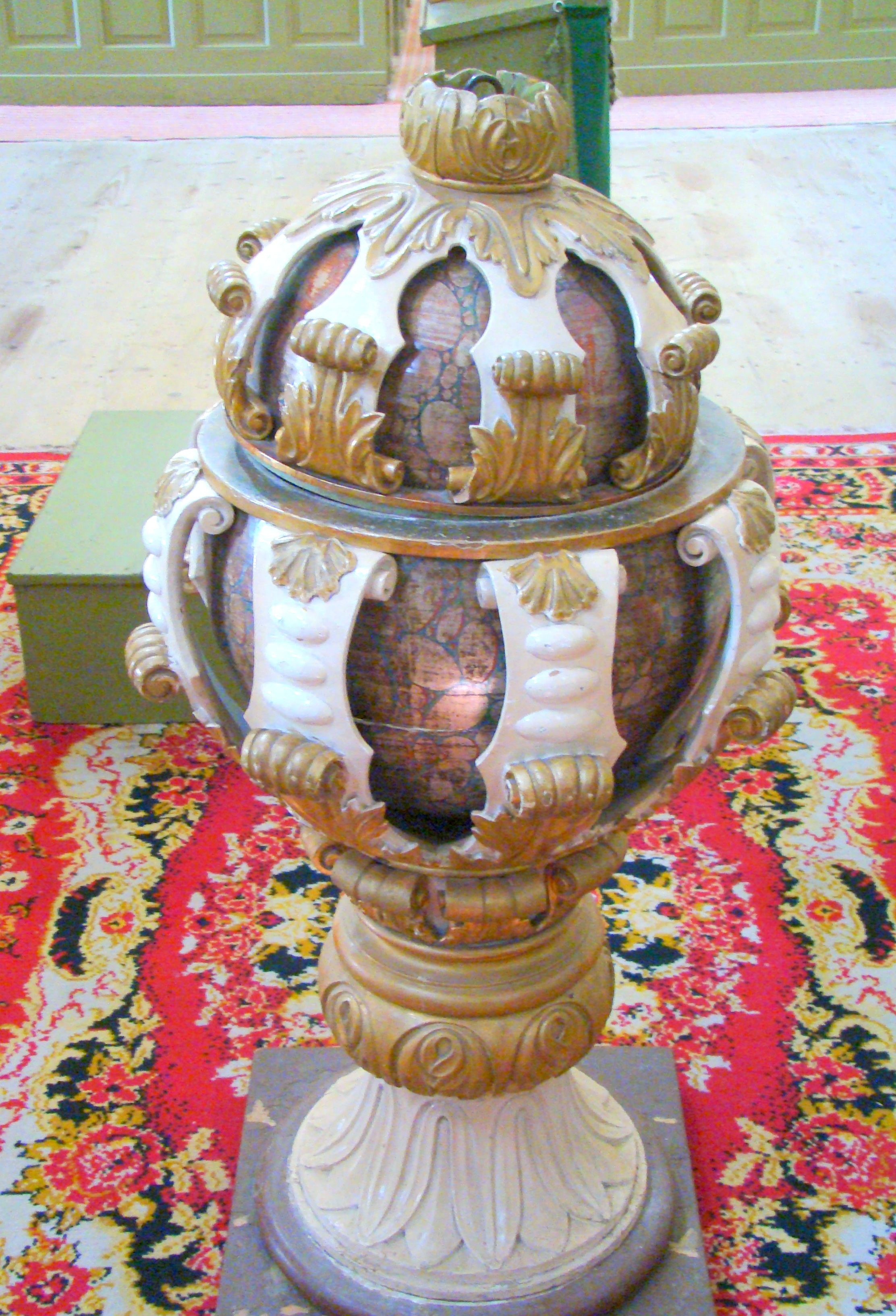 Lutheran church in Râșnov, Braşov County, Romania